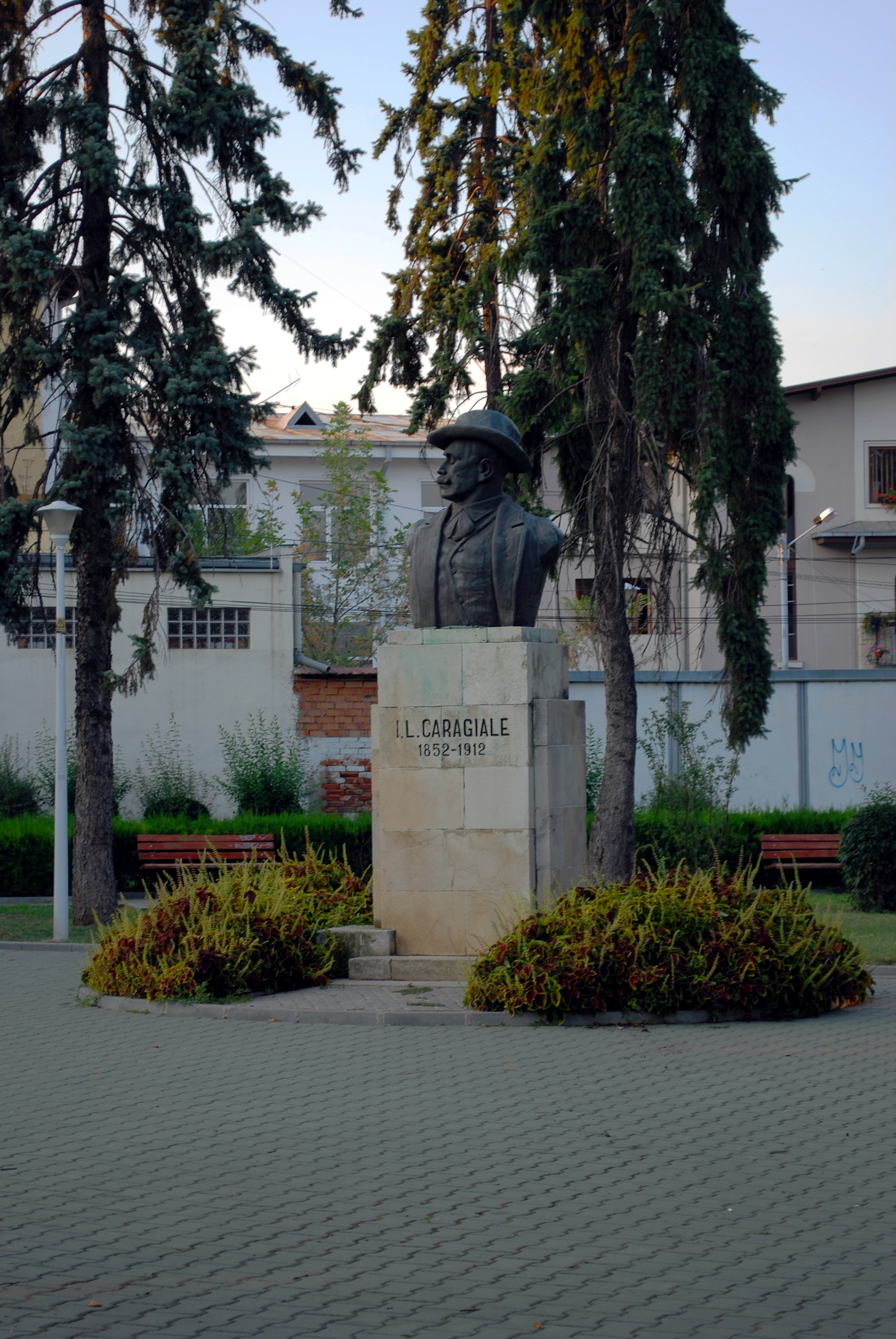 Statue of Ion Luca Caragiale in front of Mihai Viteazul High School in the center of Ploieşti, RomaniaRomână: Bustul lui Ion Luca Caragiale din faţa liceului Mihai Viteazul din centrul oraşului Ploieşti, România